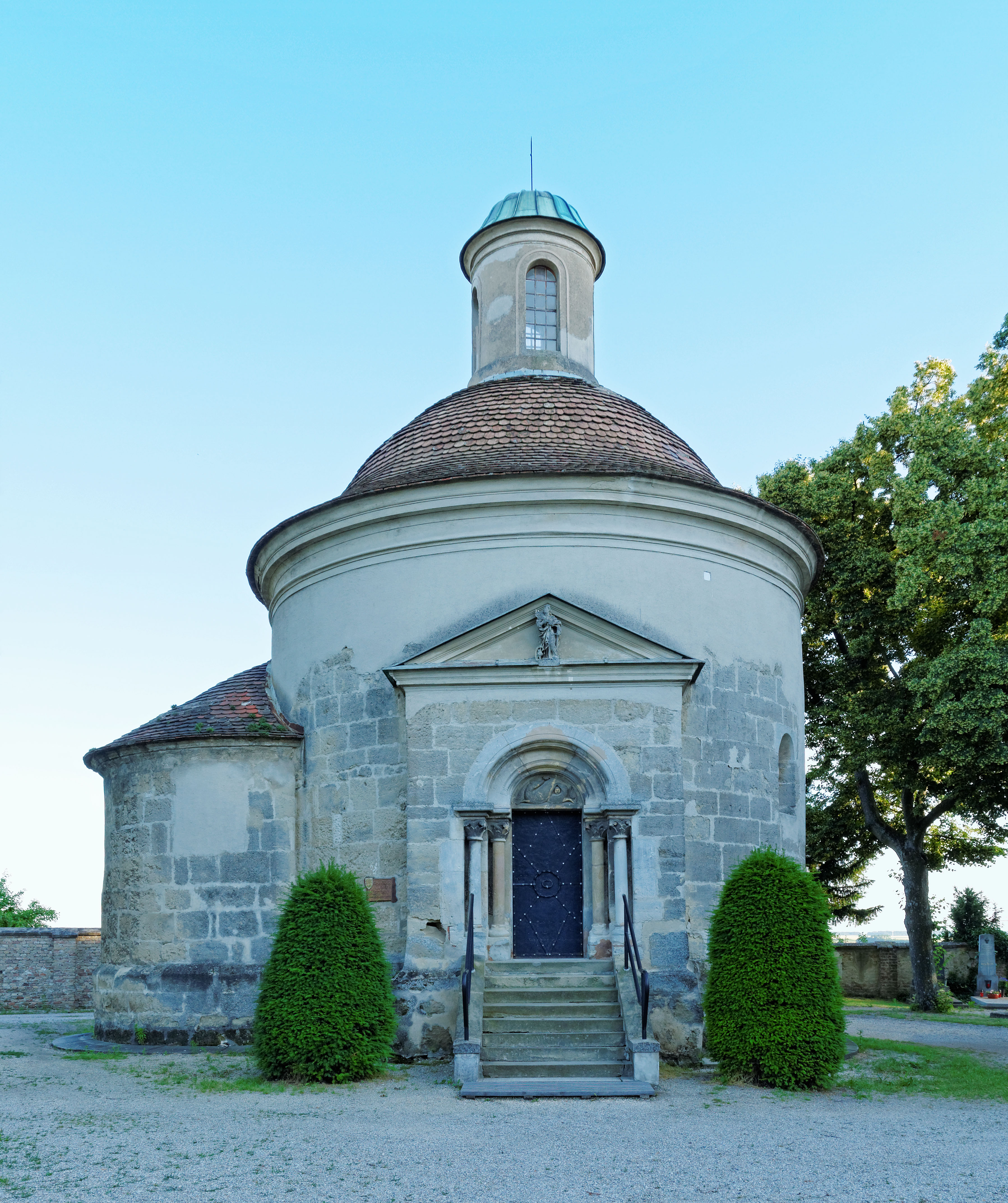 Ossuary at the cemetery of Mistelbach, Lower Austria, Austria